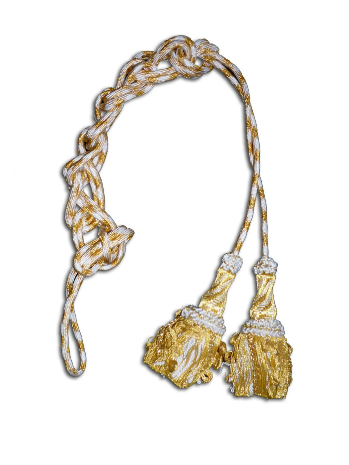 Girdle